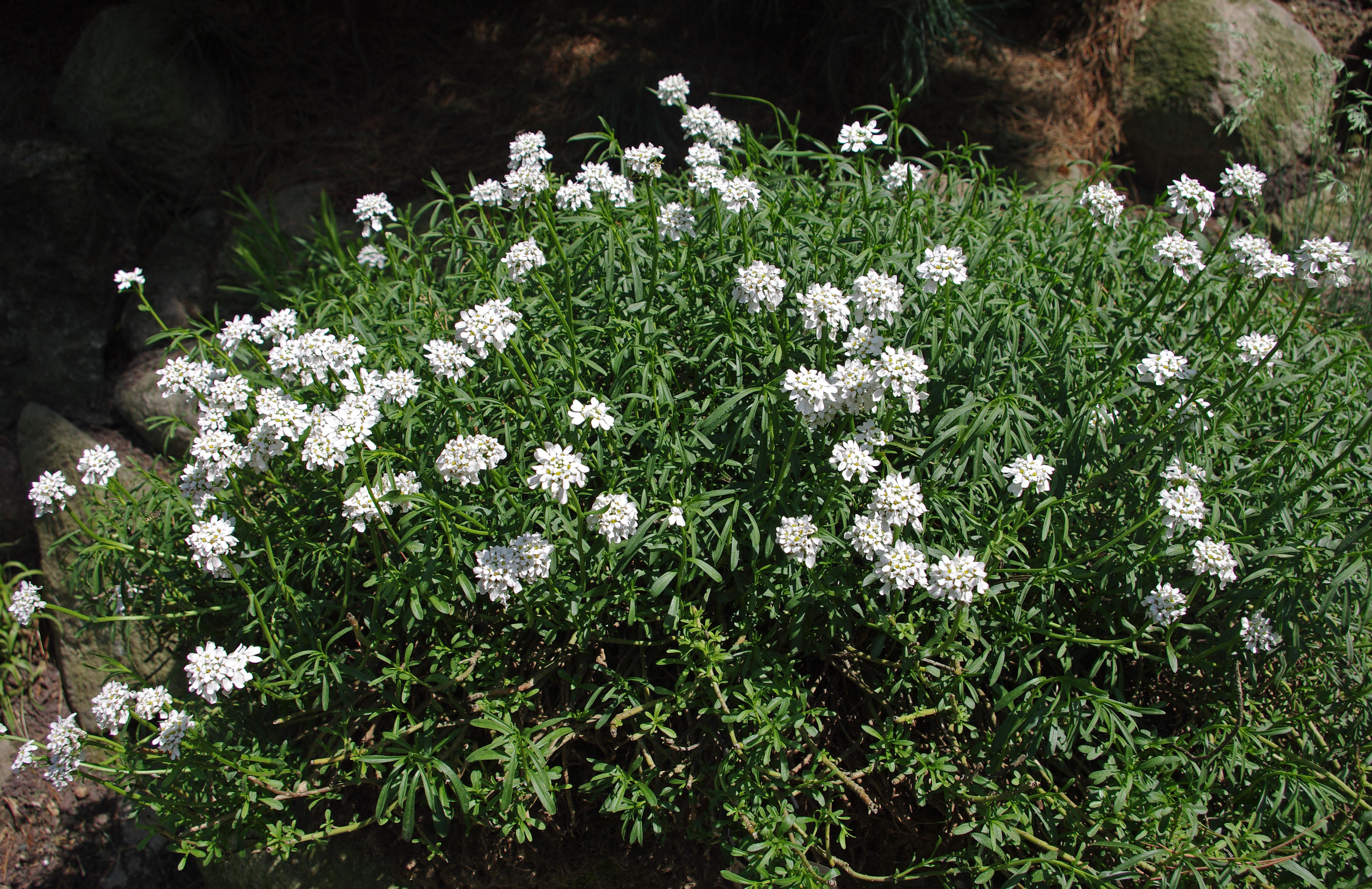 Iberis sempervirens (Evergreen candytuft, Perennial candytuft)